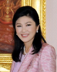 Ambassador Jocelyn Batoon-Garcia presents a token of appreciation to Prime Minister Yingluck Shinawatra.